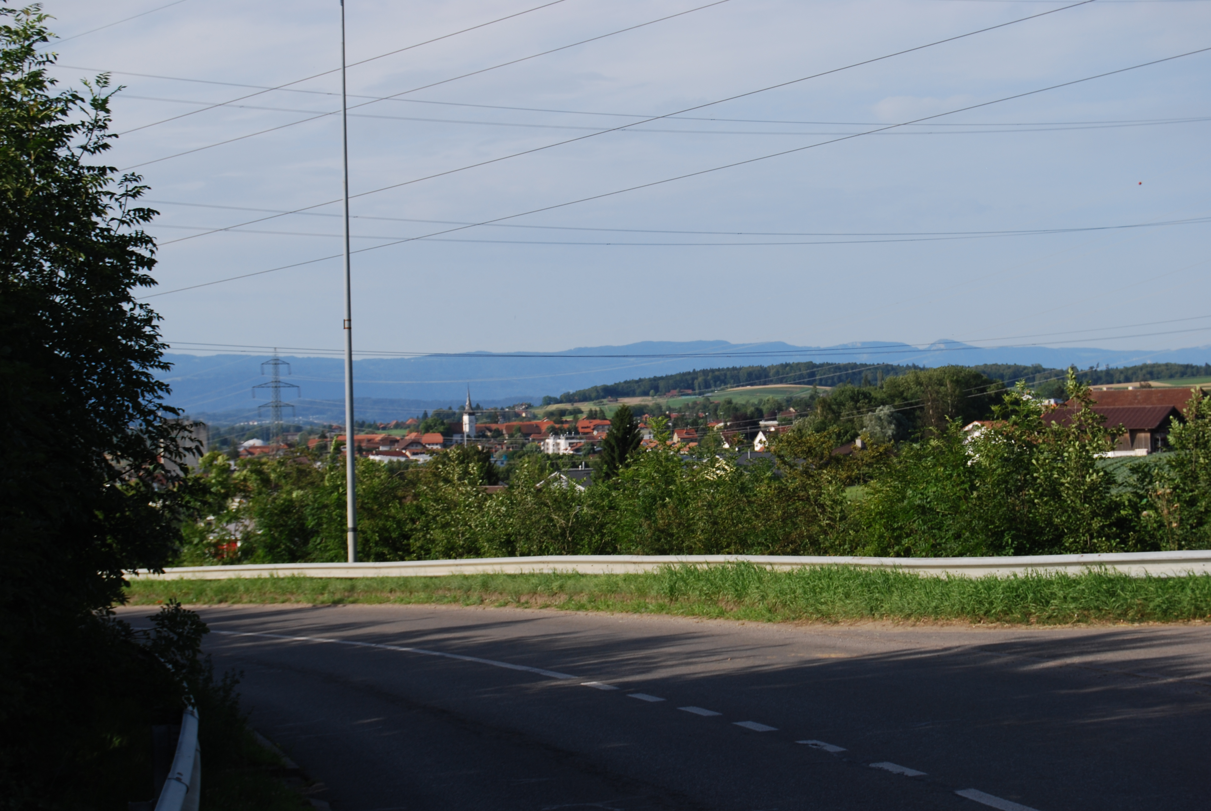 Kerzers, canton of Fribourg, SwitzerlandEsperanto: Kerzers, Kantono Friburgo, Svislando